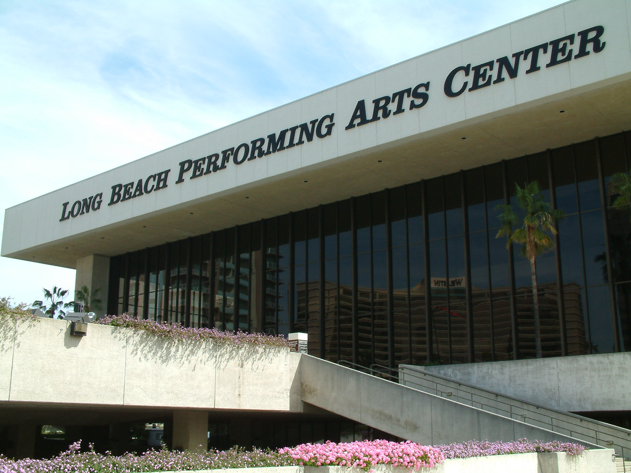 The outside of the Long Beach Performing Arts Center and the Terrace Theater in Long Beach.